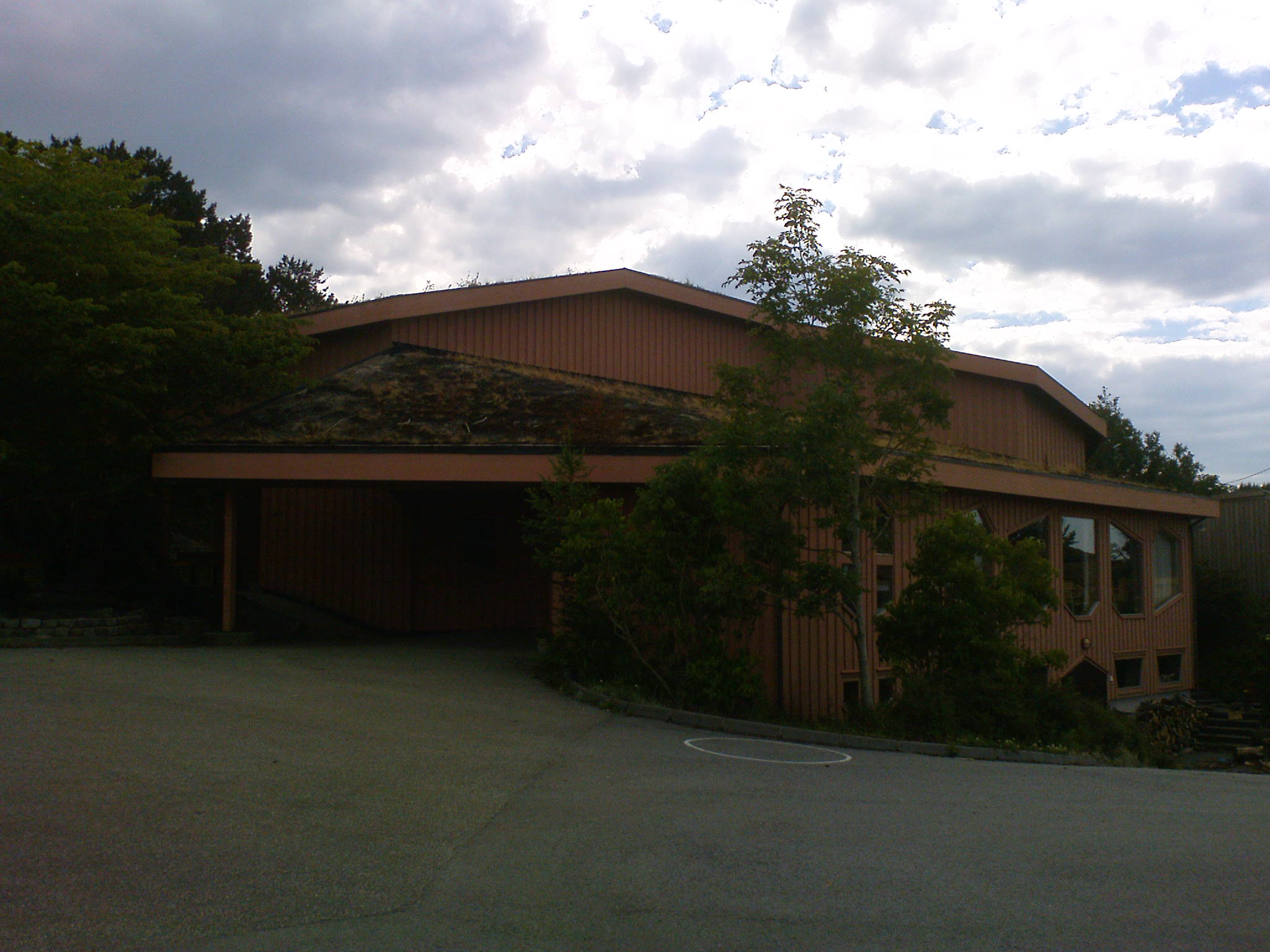 "Steinerskolen i Haugesund"